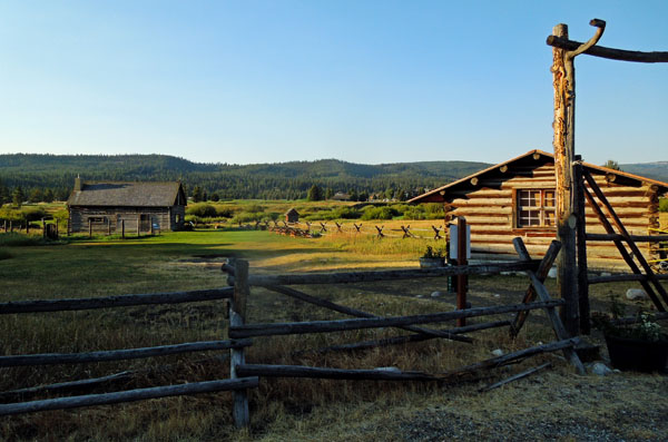 Two original homestead cabins are part of the Crail Ranch Homestead Museum, Big Sky, Montana